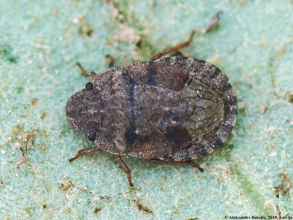 Sciocoris umbrinus